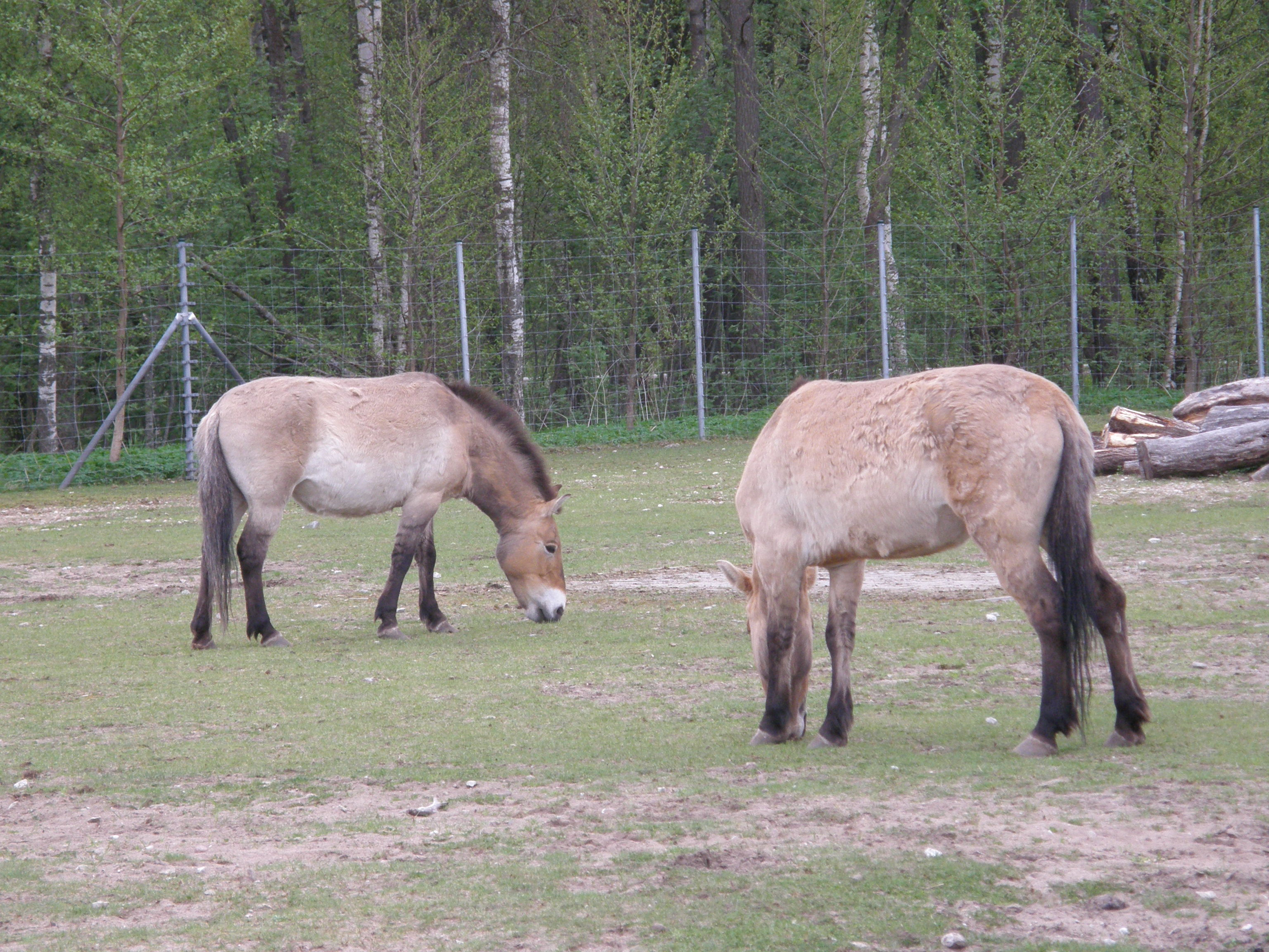 Equus przewalskii in Tallinn Zoo